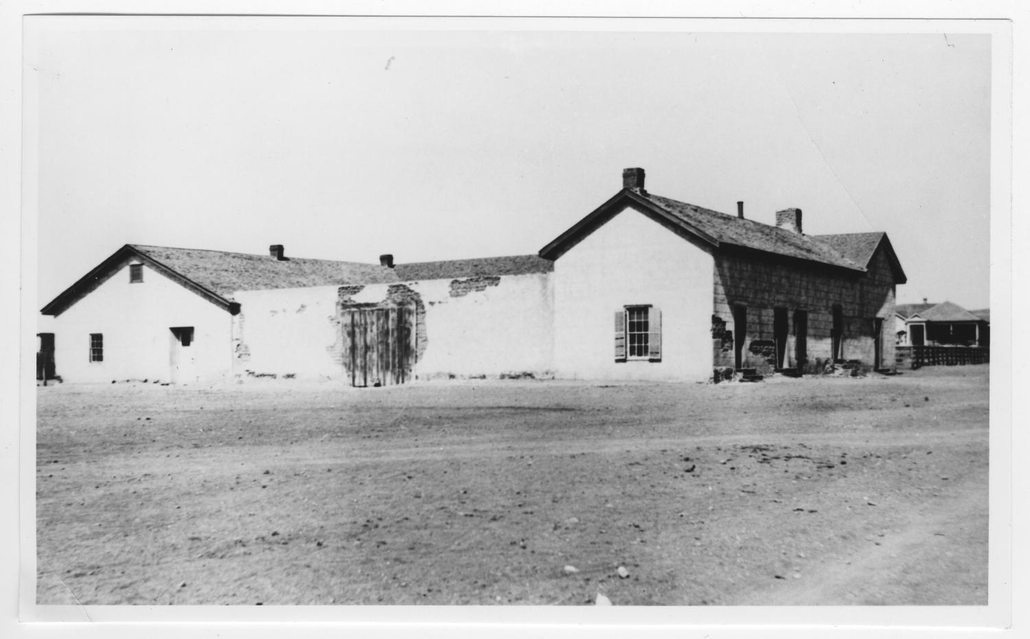 Original courthouse in Fort Davis, Texas. The building served as the first Presidio County courthouse from 1880-1885, and as the first Jeff Davis County courthouse from 1887-1911.